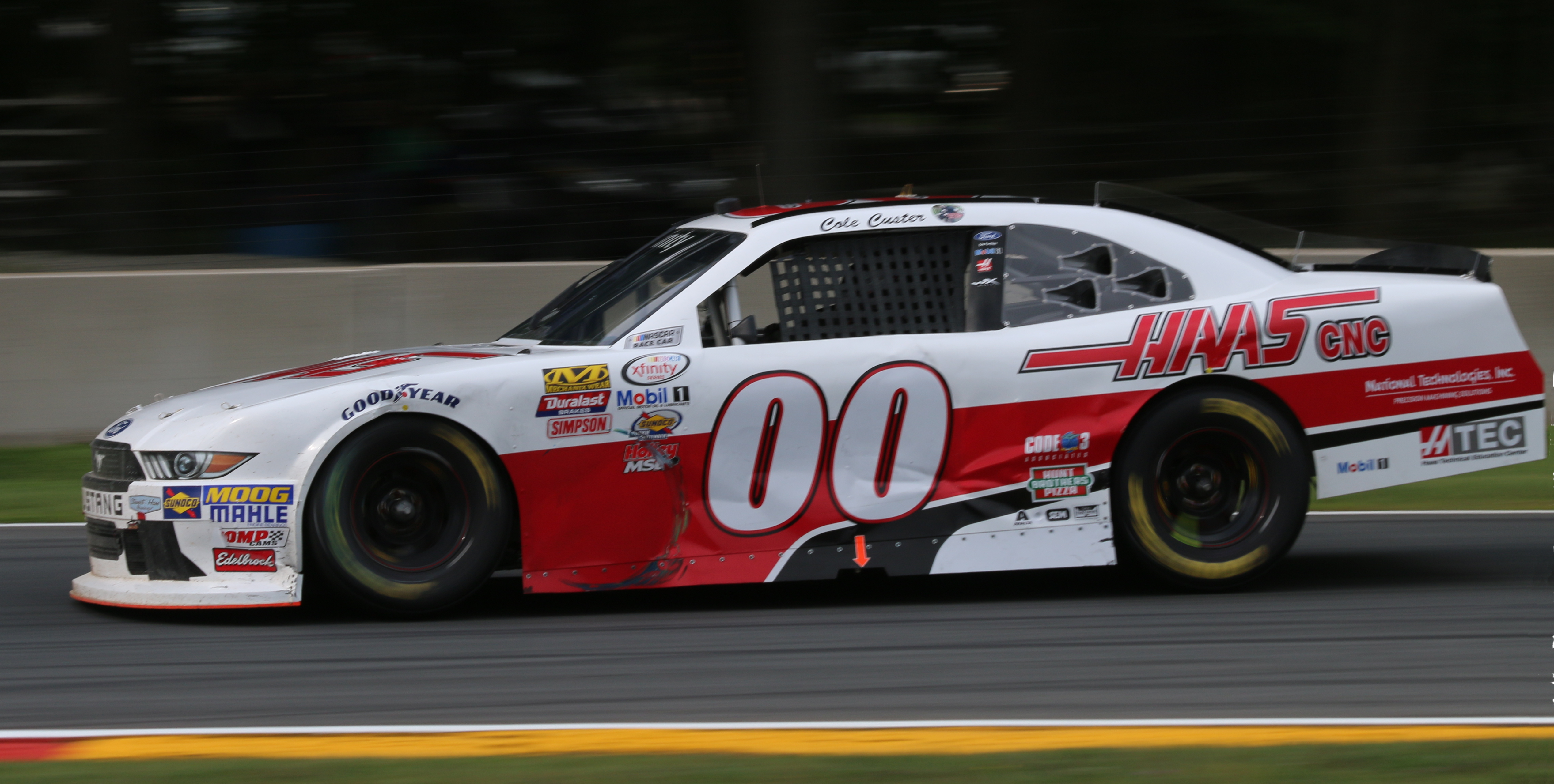 The Ford Mustang of Cole Custer at the NASCAR Xfinity Series Johnsonville 180.